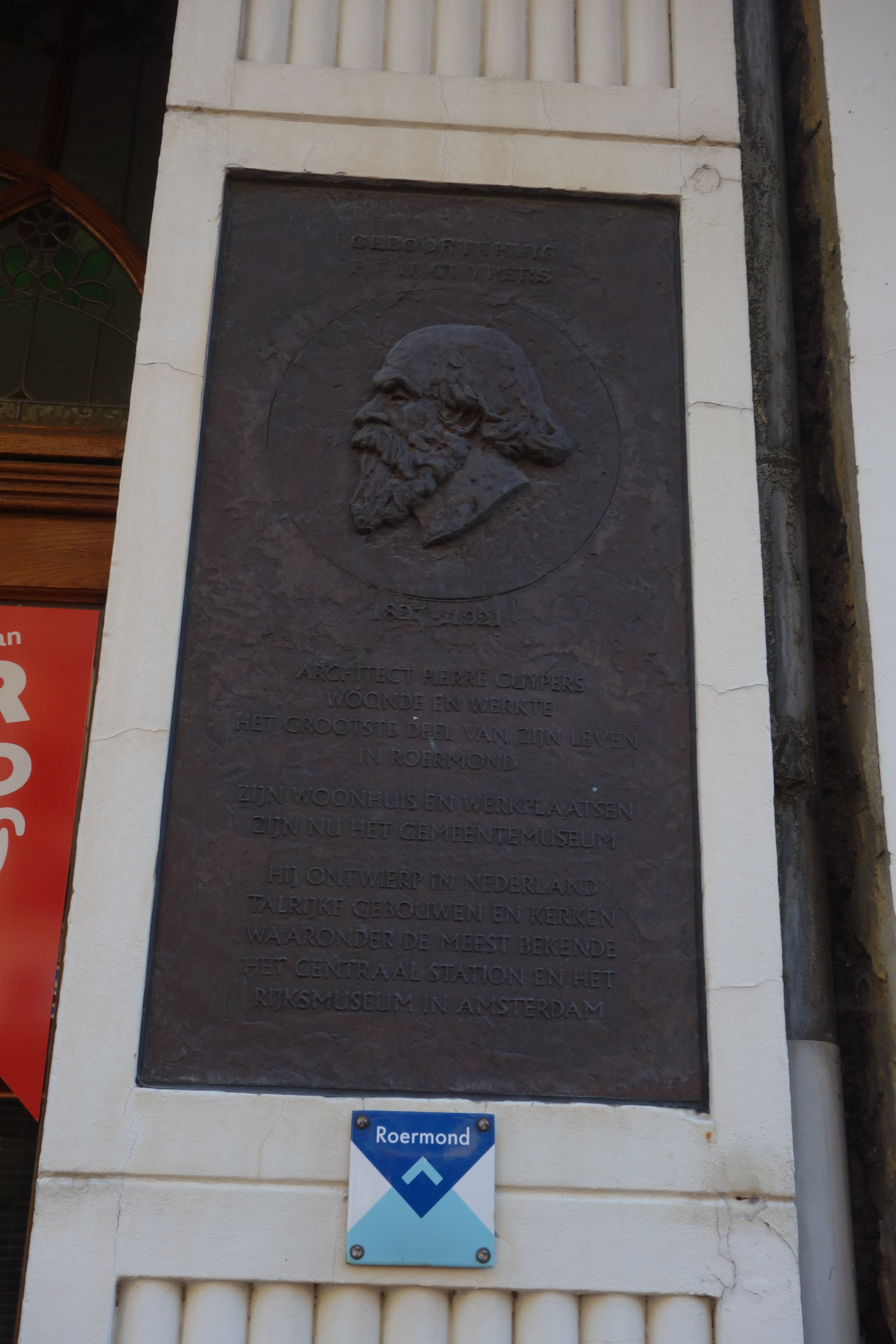 Plaque at birthplace of Pierre Cuypers (1827), Hamstraat 20-B, Roermond